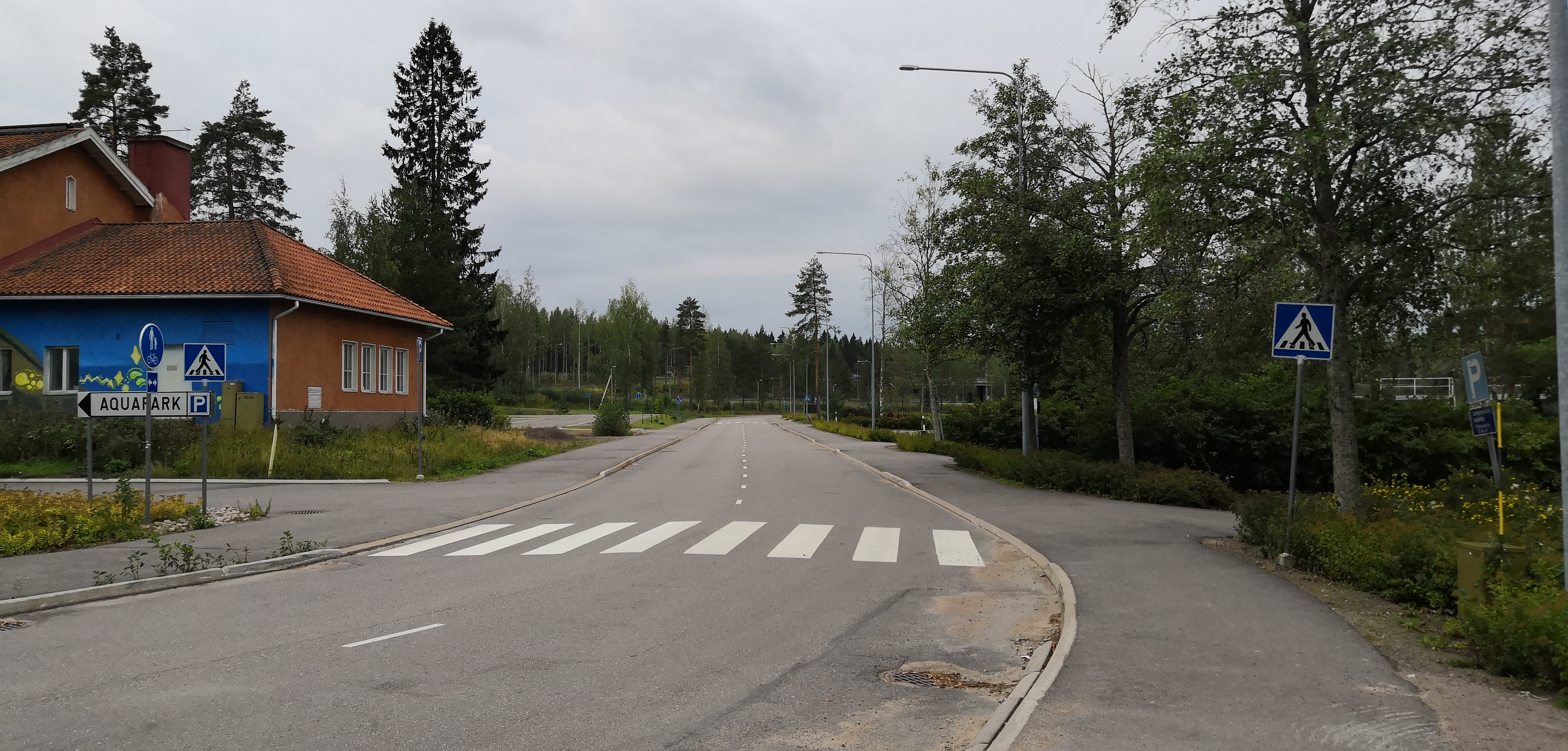 Käyrälammentie Kouvolan Käyrälammella (elokuu 2019)